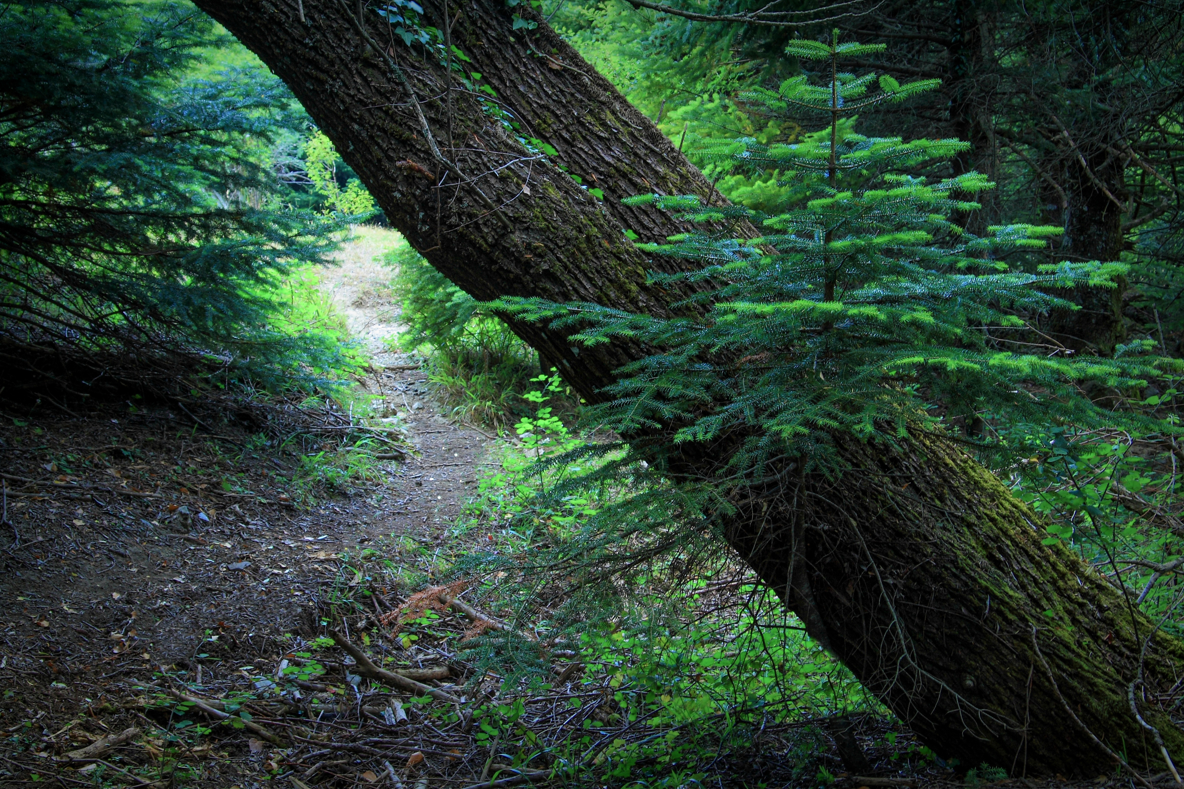 A small fir sprouts from an old tree trunk in Parnitha.